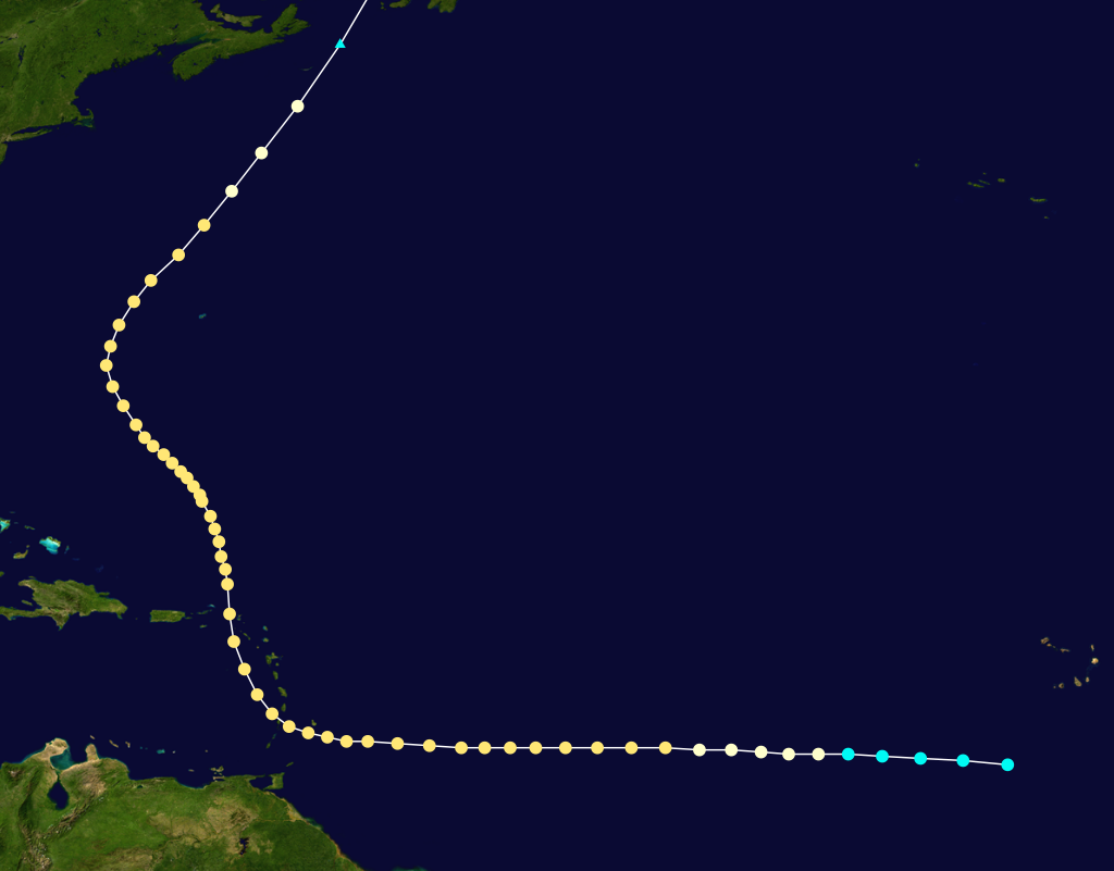 1898 Windward Islands hurricane track. Uses the color scheme from the Saffir-Simpson Hurricane Scale.